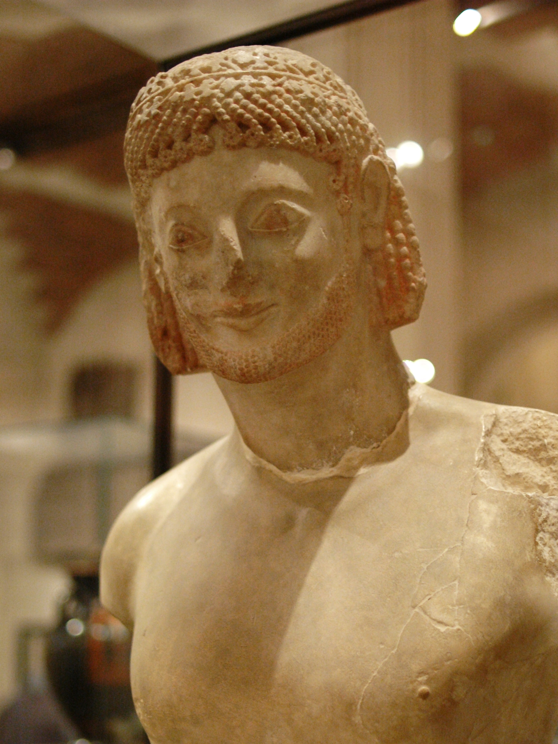 Head of a young rider, found in 1877 at the Acropolis of Athens. The head is original, the torso is a cast.